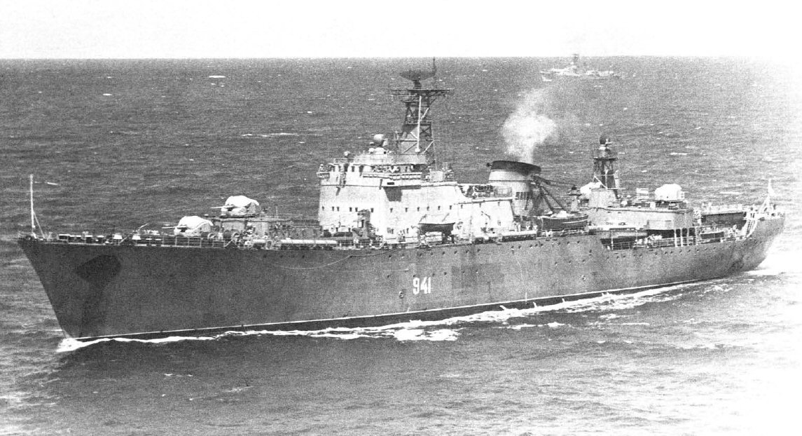 Soviet Ugra class (Project 1886) submarine depot ship.